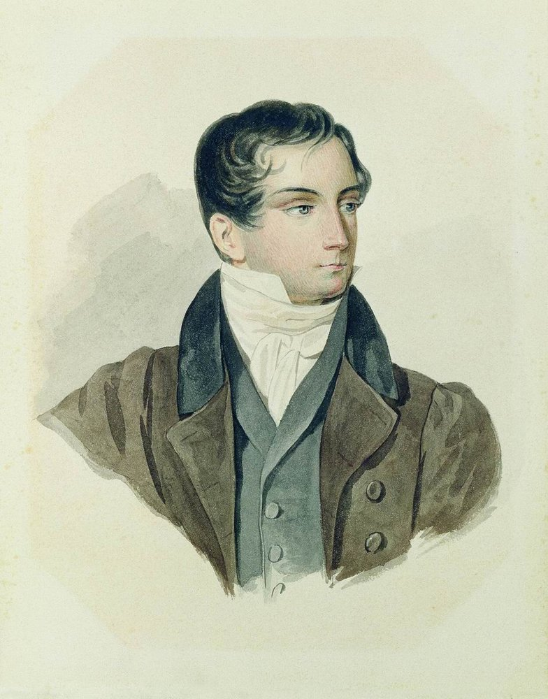 Dmitry Venevitinov